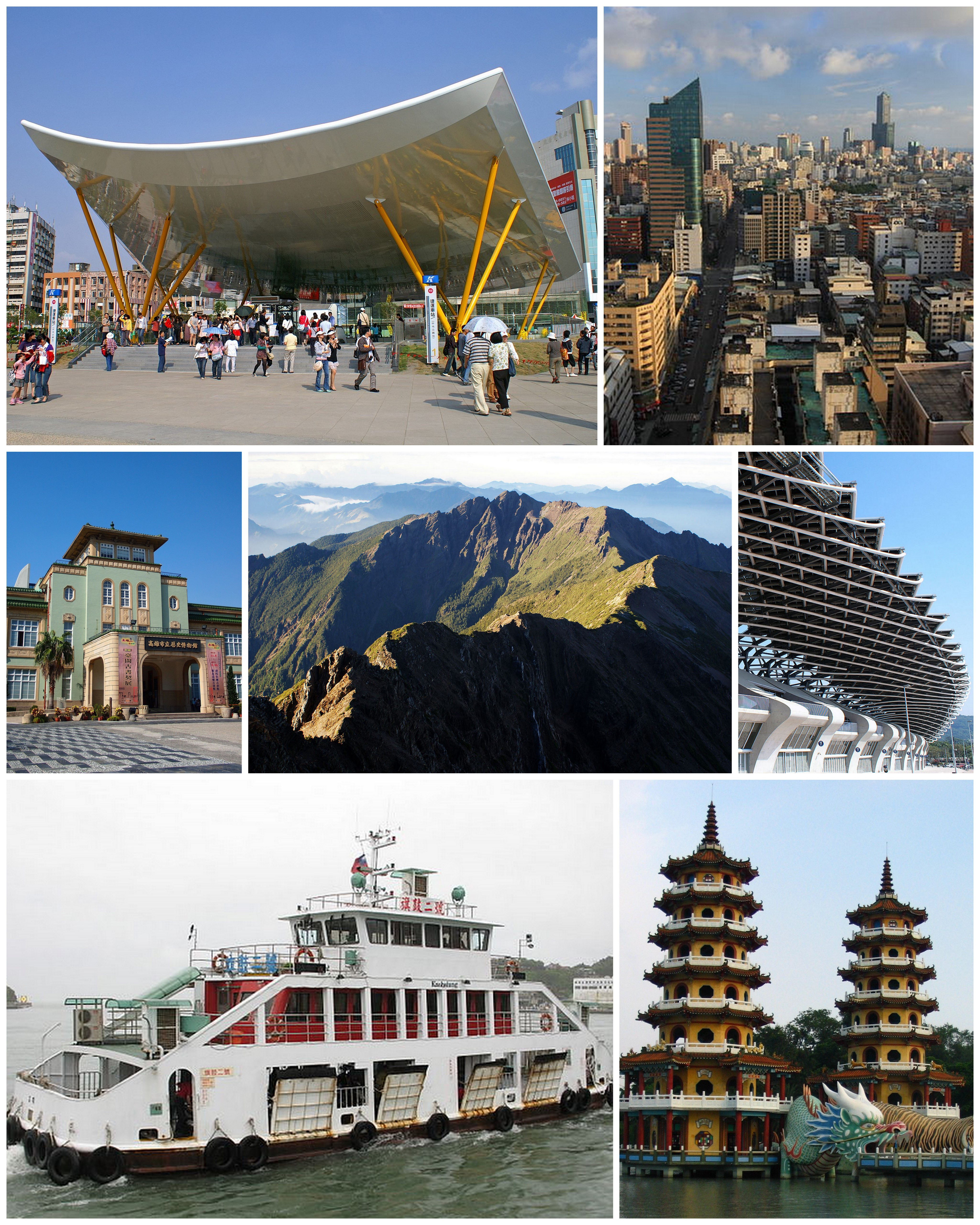 Kaohsiung, Taiwan 高雄歷史博物館 中文（台灣）: 高雄捷運紅線中央公園站。Bân-lâm-gú: Tâi-uân Ko-hiông kíng-sik. 臺灣高雄景色